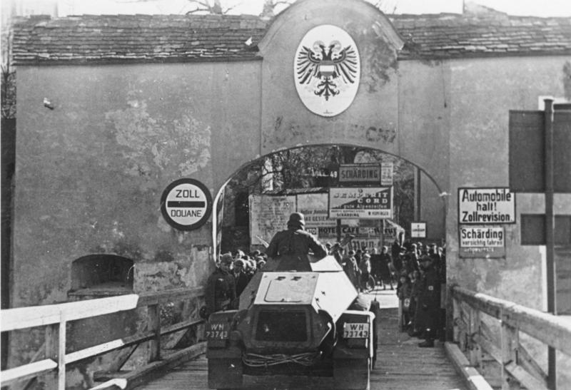 SdKfz.221 armoured car